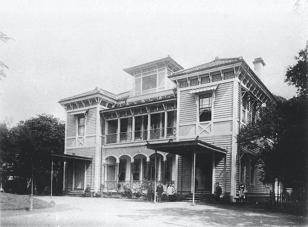 Ueno Seiyoken in the Meiji era